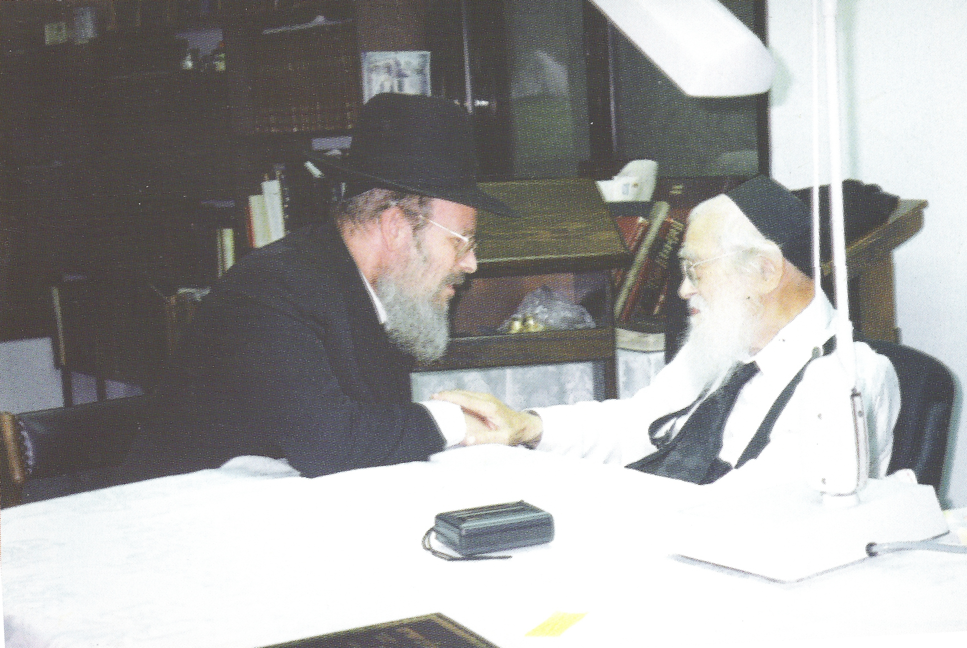 Rabbi David Haksher talking to Rabi Elazer Shach.